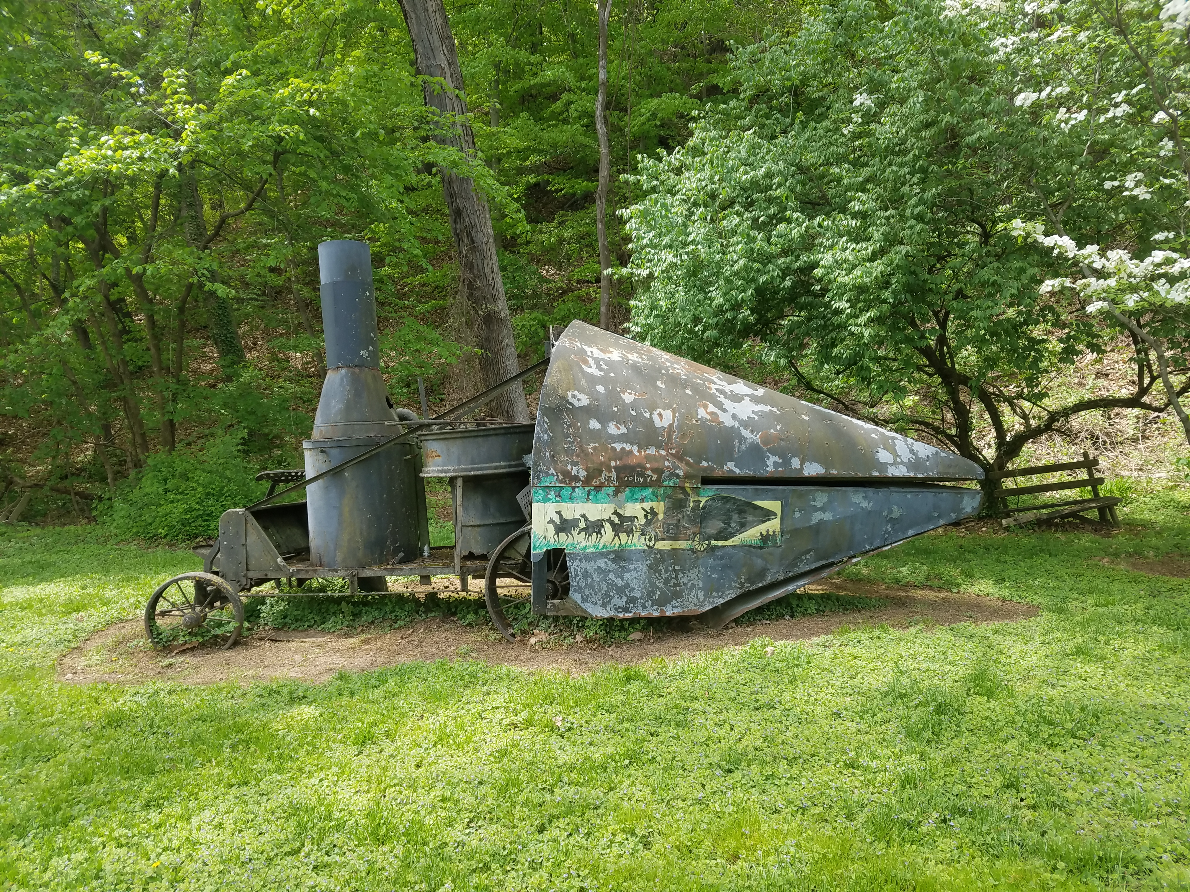 Replica of the Winans Steam Gun at Elkridge, Maryland. Sadly in need of renovation.